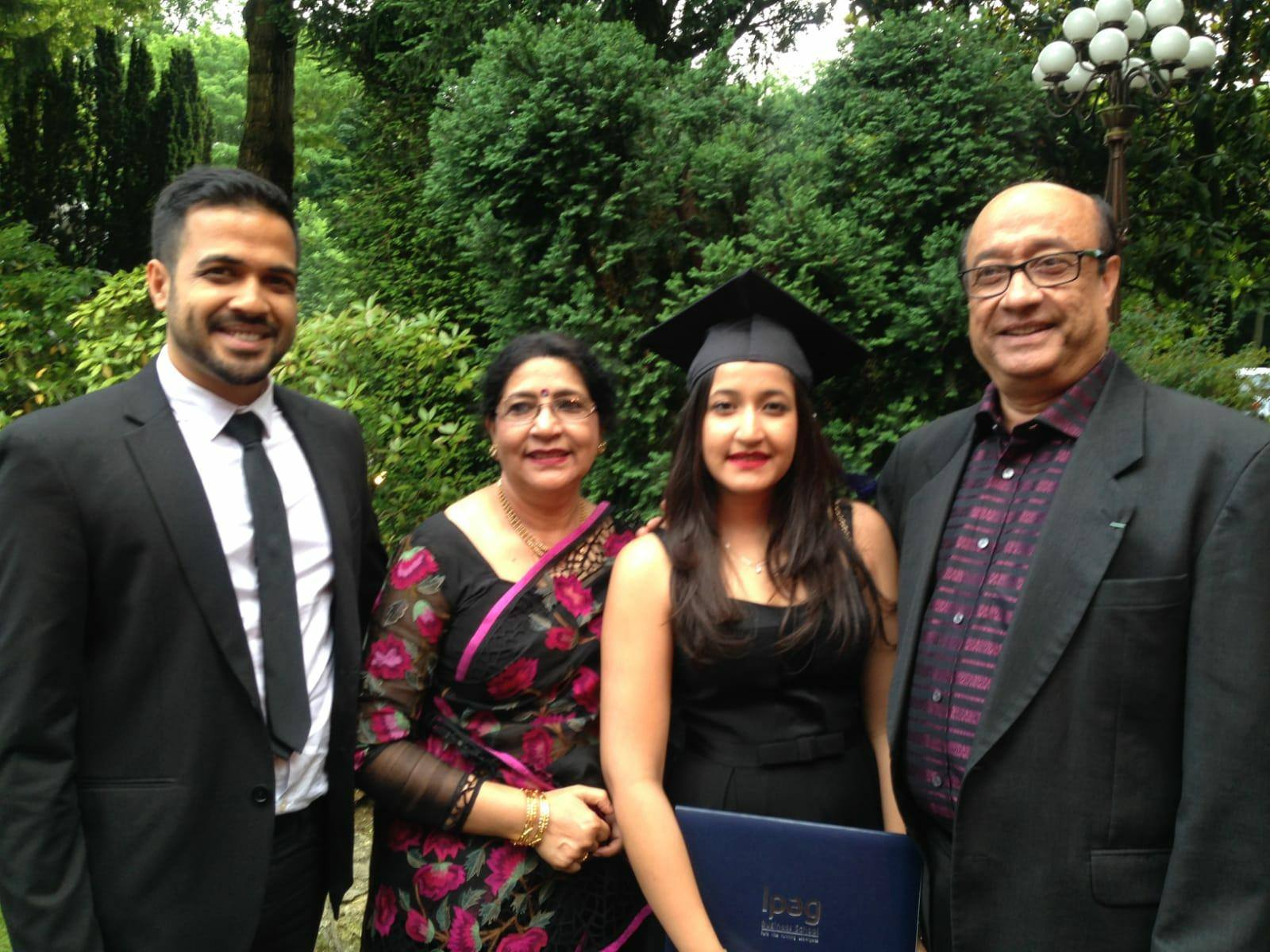 Partha Pratim Majumder with family